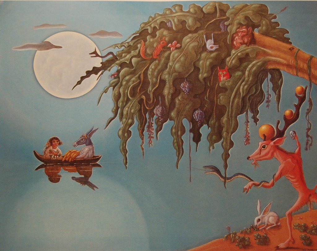 Tree of Knowledge by Mordecai MOREH